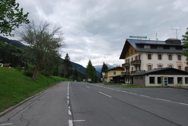 Iselsbergpass summit